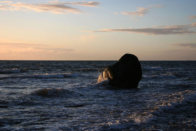 Trwyn Maen Dylan. A large rock on the beach between the villages of Aberdesach and Pontllyfni